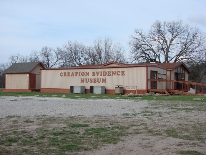 Creation Evidence Museum in Glen Rose, Texas: The original, temporary building which houses the first hyperbaric biosphere